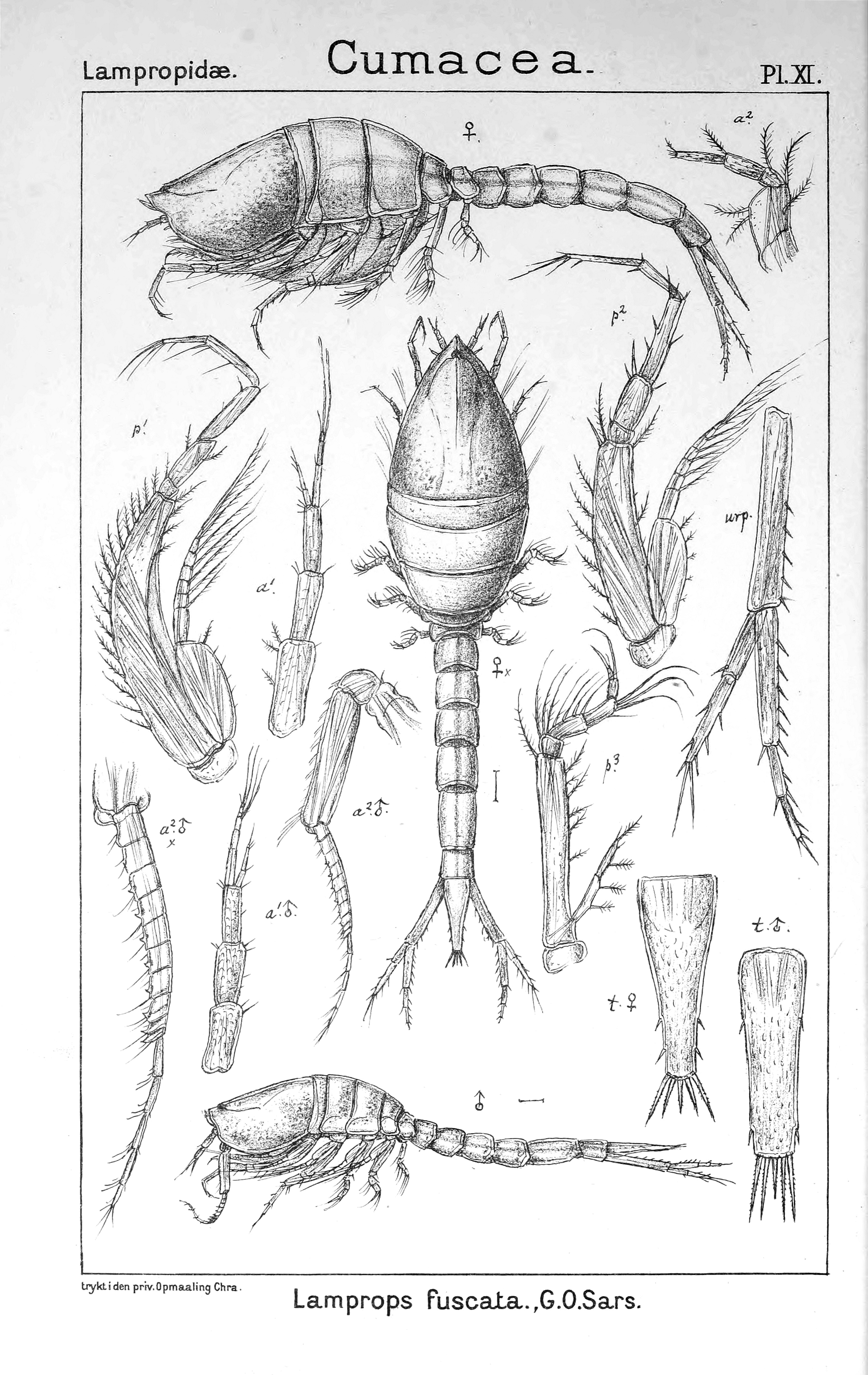 Plate XI from Sars, G. O., (1900). An account of the Crustacea of Norway: Cumacea, Bergen Museum.